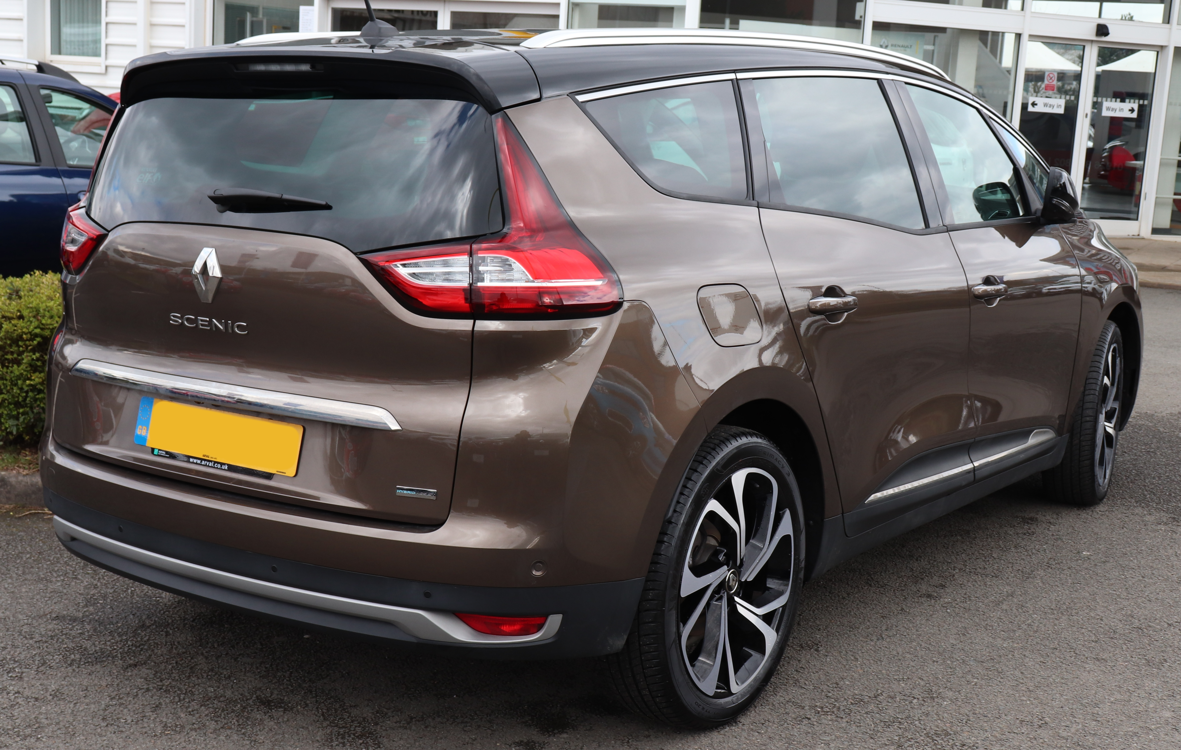 2017 Renault Grand Scenic SIG NAV DCi 1.5 Rear Taken in Leamington Spa